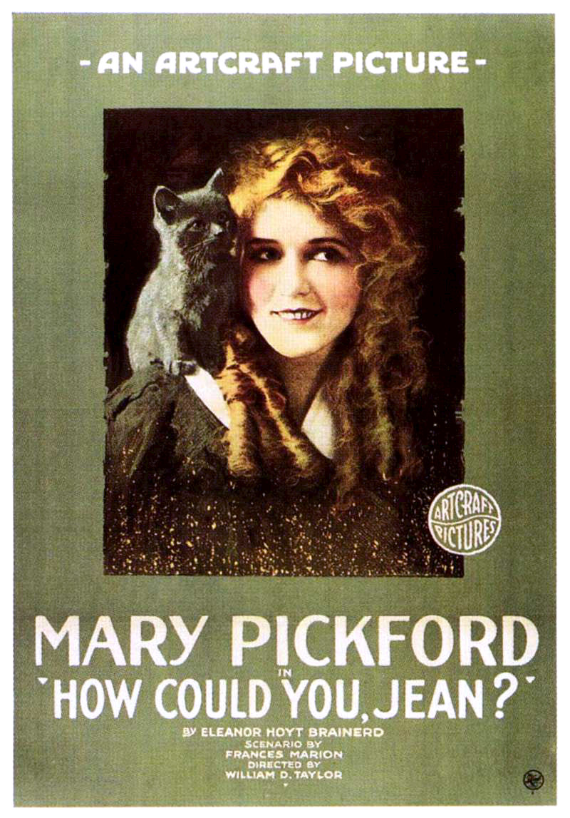 Movie poster for the 1918 film How Could You, Jean?